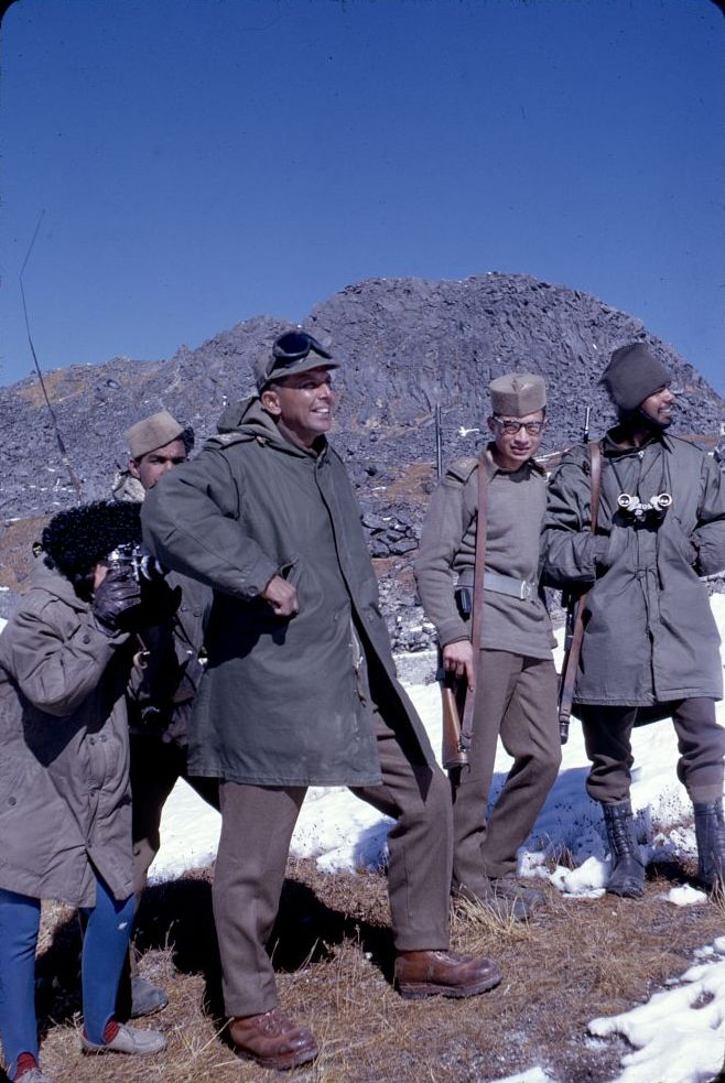 Alice Kandell hiding behind a Sikkimese soldier to take a photograph of a Chinese soldier along the Nathu La pass, Sikkim, 1965 December. 1 slide : color ; 35mm. Notes Title devised by Library staff. Soldier in photograph is identified as "the General" by Alice Kandell in her presentation. Slide used for the presentation: "A Tour of the Lost Kingdom: Sikkim" by Dr. Alice S. Kandell and Hope Cooke, Library of Congress, March 13, 2010. Webcast available at: Forms part of: Dr. Alice S. Kandell Collection of Sikkim Photographs (Library of Congress). Use digital image. Original served only by appointment because material requires special handling. For more information, Gift; Dr. Alice S. Kandell; 2010; (DLC/PP-2010:106). Subjects: Kandell, Alice S.--Journeys--India--Sikkim. Soldiers--India--Sikkim--1960-1970. Passes (Landforms)--India--Sikkim--1960-1970. Mountains--India--Sikkim--1960-1970. Format: Group portraits--1960-1970. Portrait photographs--1960-1970. Slides--Color--1960-1970. Repository: Library of Congress, Prints and Photographs Division, Washington, D.C. 20540 USA, Persistent URL: Call Number: LC-KAN05- 0039 [item]